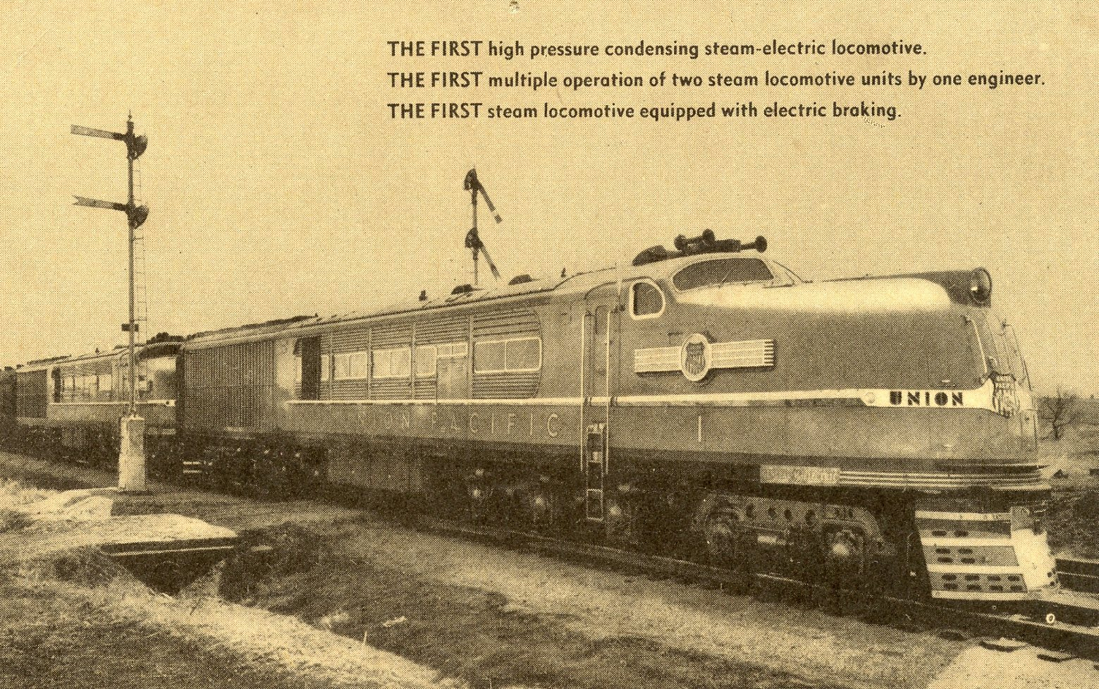 Postcard photo of a steam-electric streamlined locomotive built by General Electric for Union Pacific Railroad. This appears to be another view of the two locomotives shown here. File:Union Pacific experimental steam turbine engines 1939.JPG